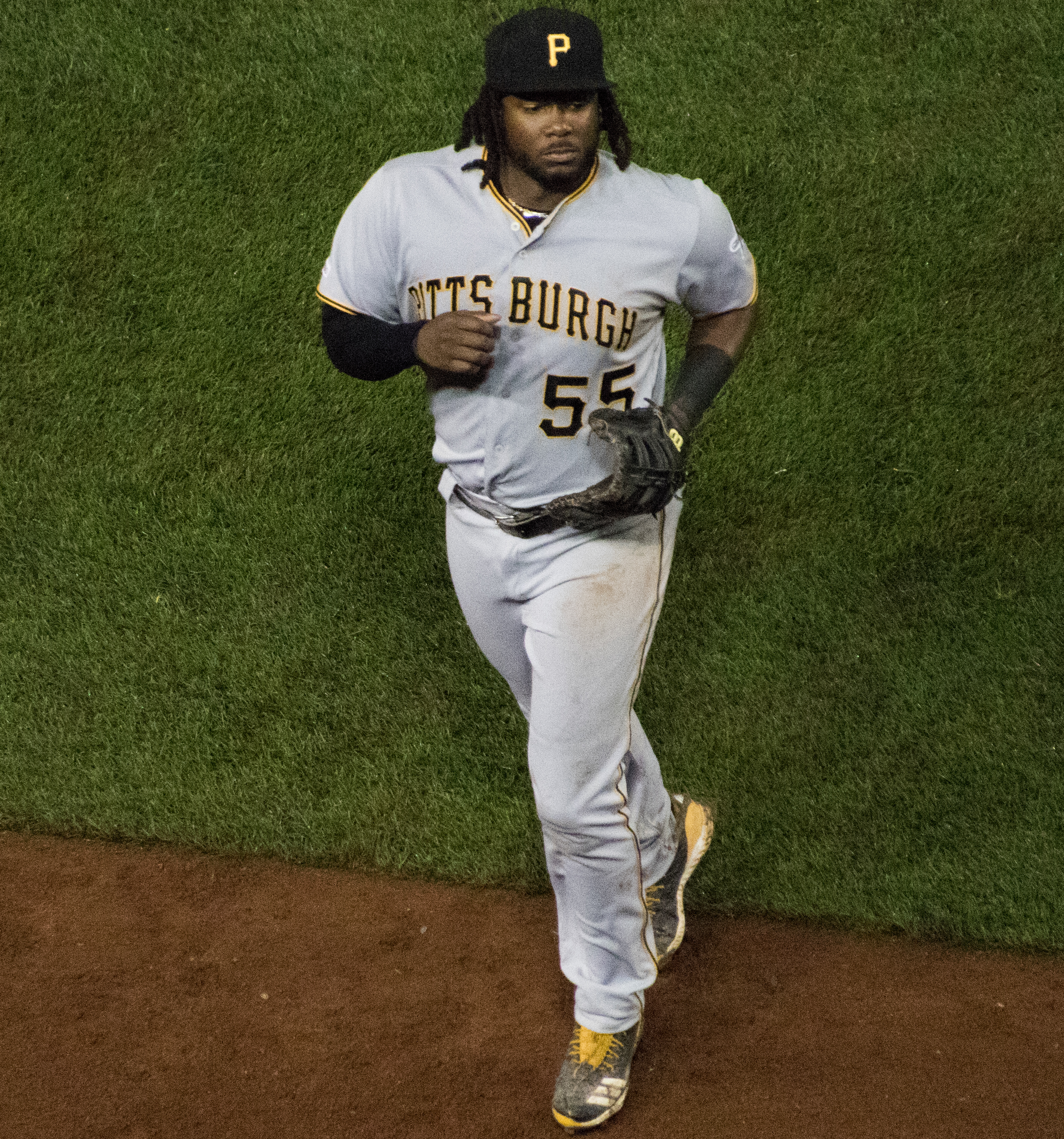 Josh Bell